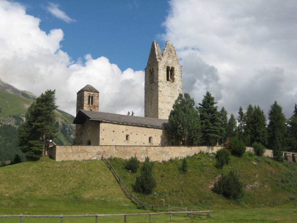 Celerina